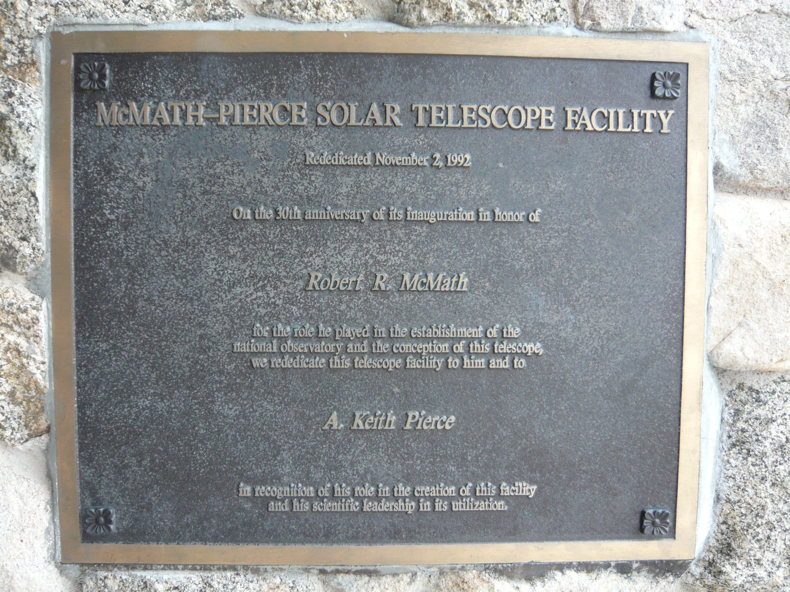 The rededication slab of the McMath-Pierce Solar Telescope on Kitt Peak at the entrance.